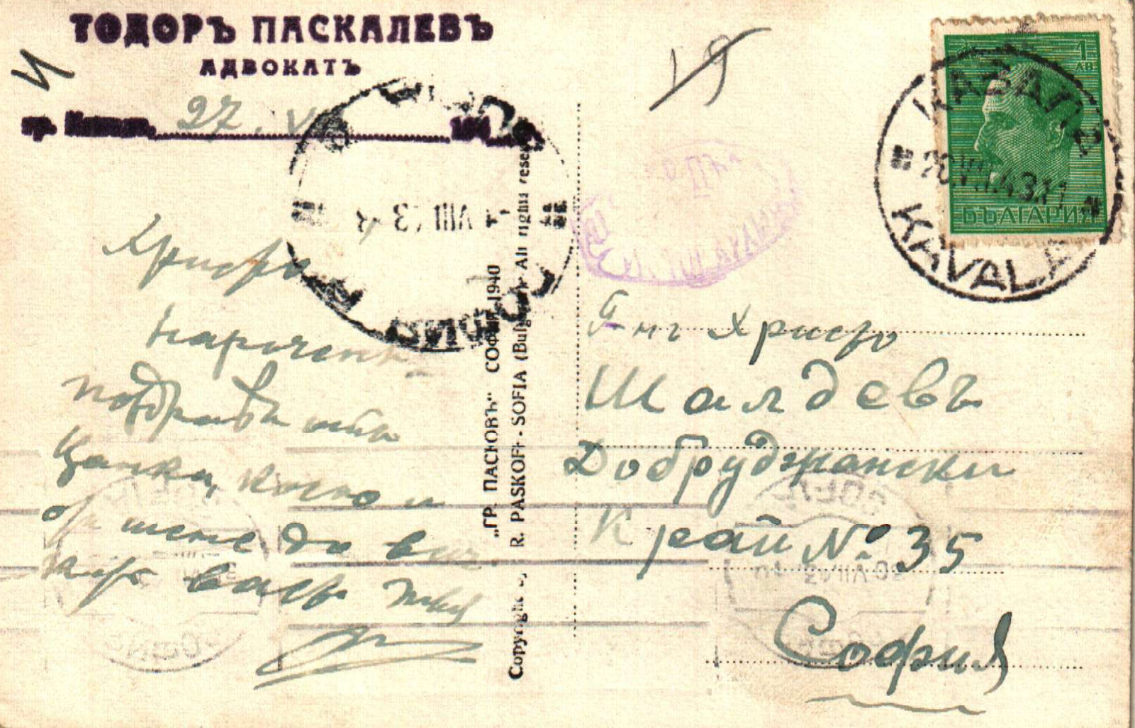 Kavala port